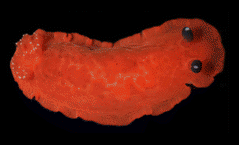 Photo of dorsal view of Dendrodoris krebsii.